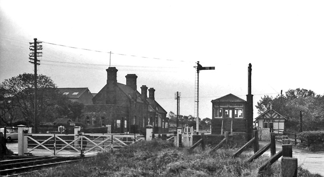 Bootle (Cumberland) Station. View southward, towards Barrow-in-Furness and Carnforth; ex-Furness Rly. Carnforth - Barrow - Whitehaven secondary main line - still open. (Near here, in World War Two on 22/3/45, there was a massive explosion when a blazing wagon in a train of depth-charges blew up. The crew of the engine had very courageously managed to isolate the burning wagon from the rest of the train so preventing the whole lot going up; the driver was the only person killed and the fireman lived and was awarded the George Medal).